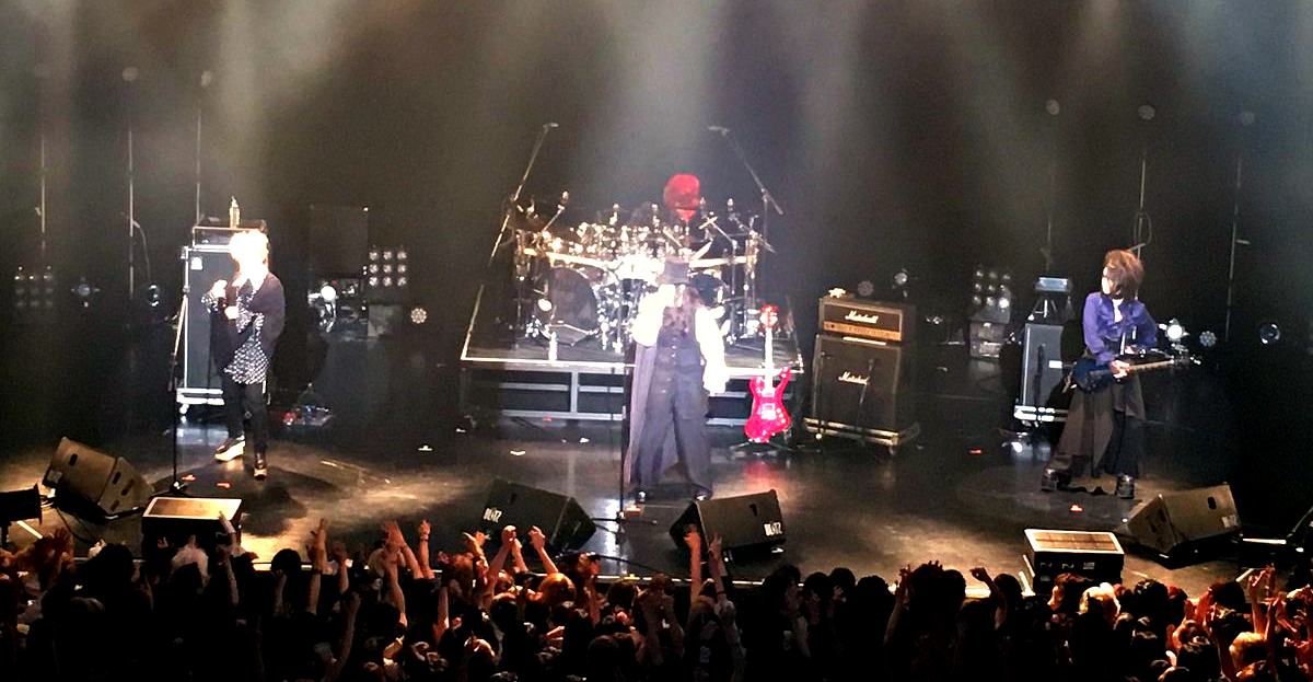 Közi, Yuki and Mana (MALICE MIZER) performing transylvania, Deep Sanctuary V at Akasaka Blitz